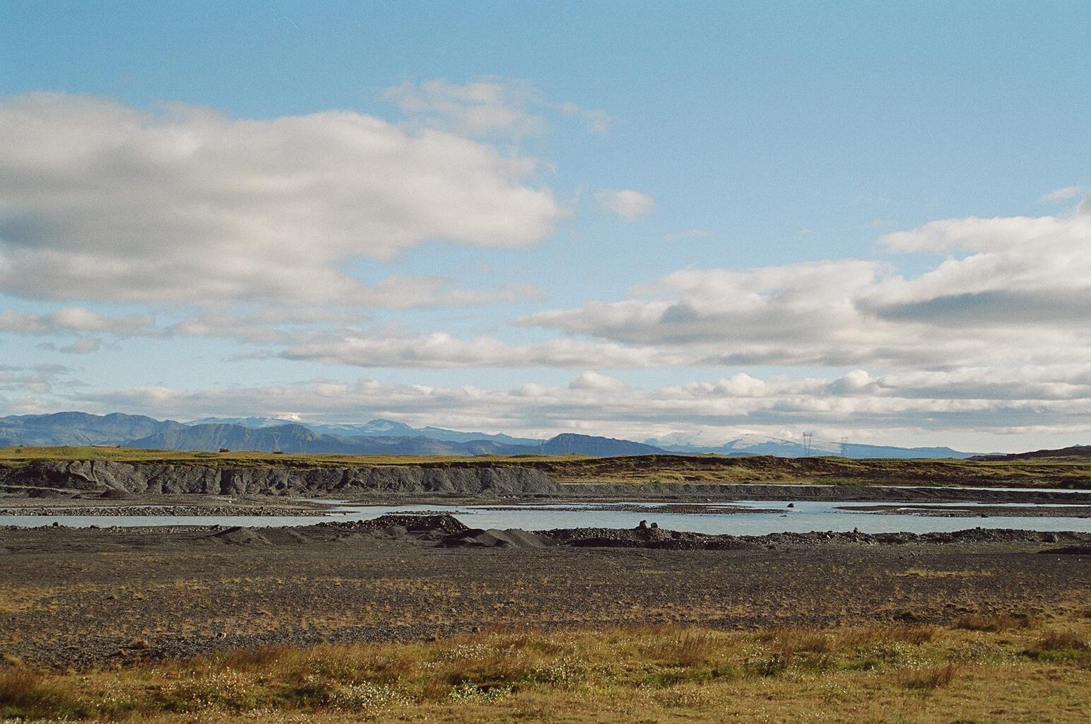 Tindfjallajökull Sept. 2004The picture shows the river Þjórsá in the south of Iceland. Behind the river on the left-hand side the glacier Tindfjallajökull, on the right-hand side the glacier Eyjafjallajökull.